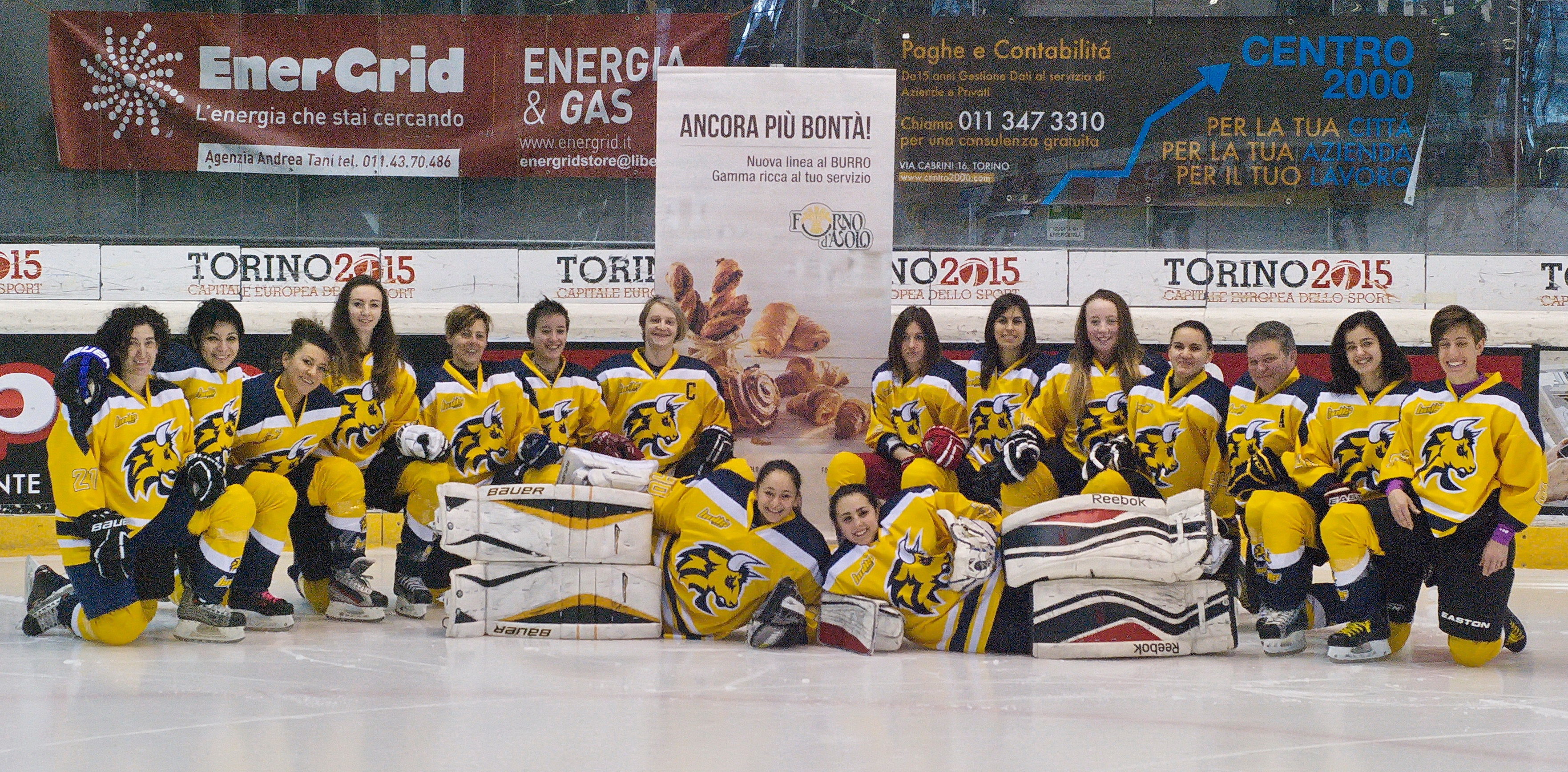 Women's ice hockey Serie A match between Torino Bulls and Alleghe Girls played January 24, 2016